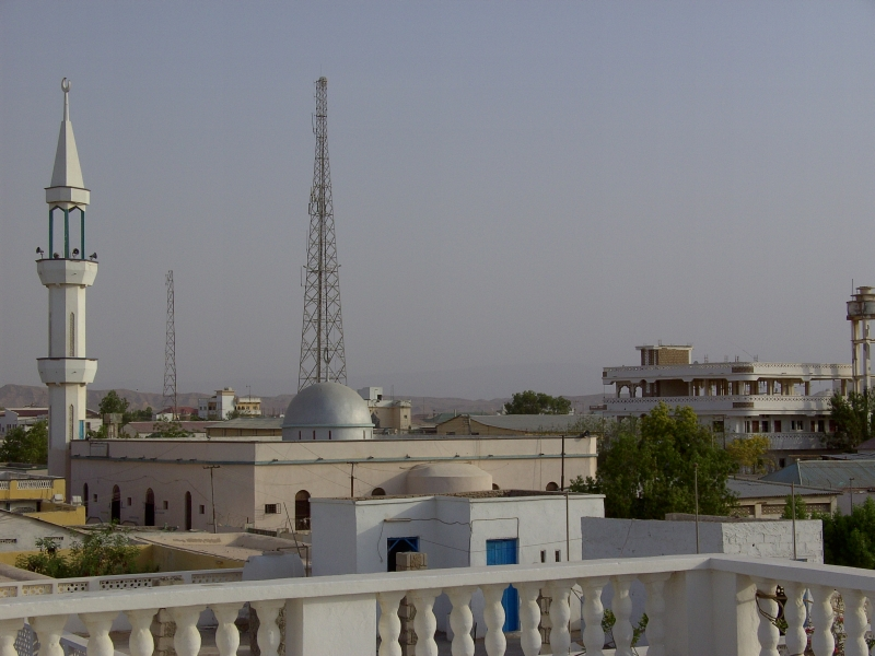 The horizon in Bosaso, the commercial capital of the autonomous Puntland region in northeastern Somalia.